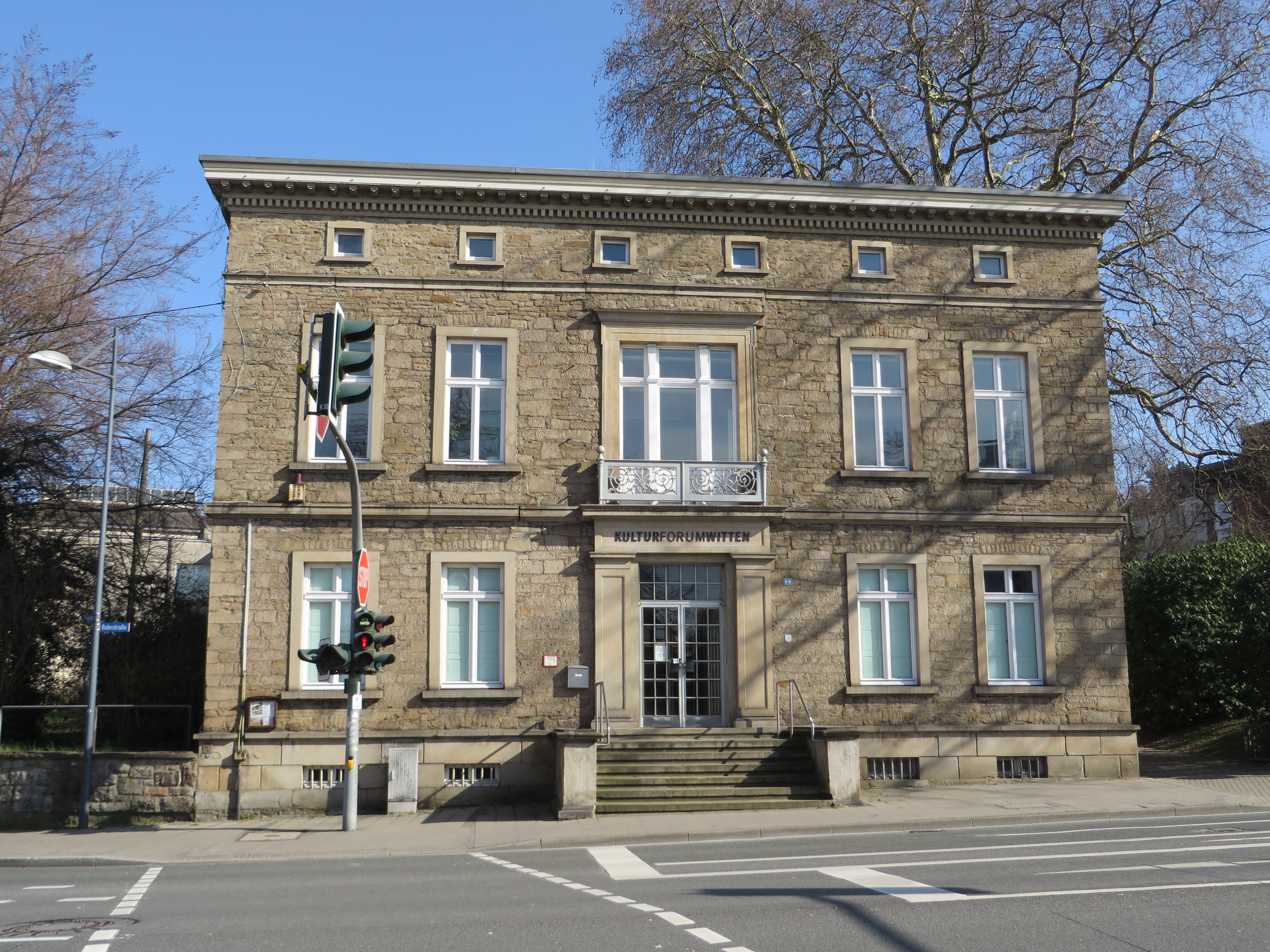 Villa Berger in Witten, Germany